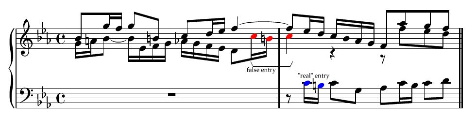 Example of a so-called 'false-entry' in J.S. Bach's Fugue no. 2 in C minor.